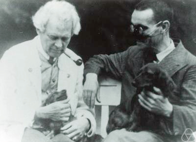 Mathematicians Gustav Herglotz (left) and Gaston Julia (right).